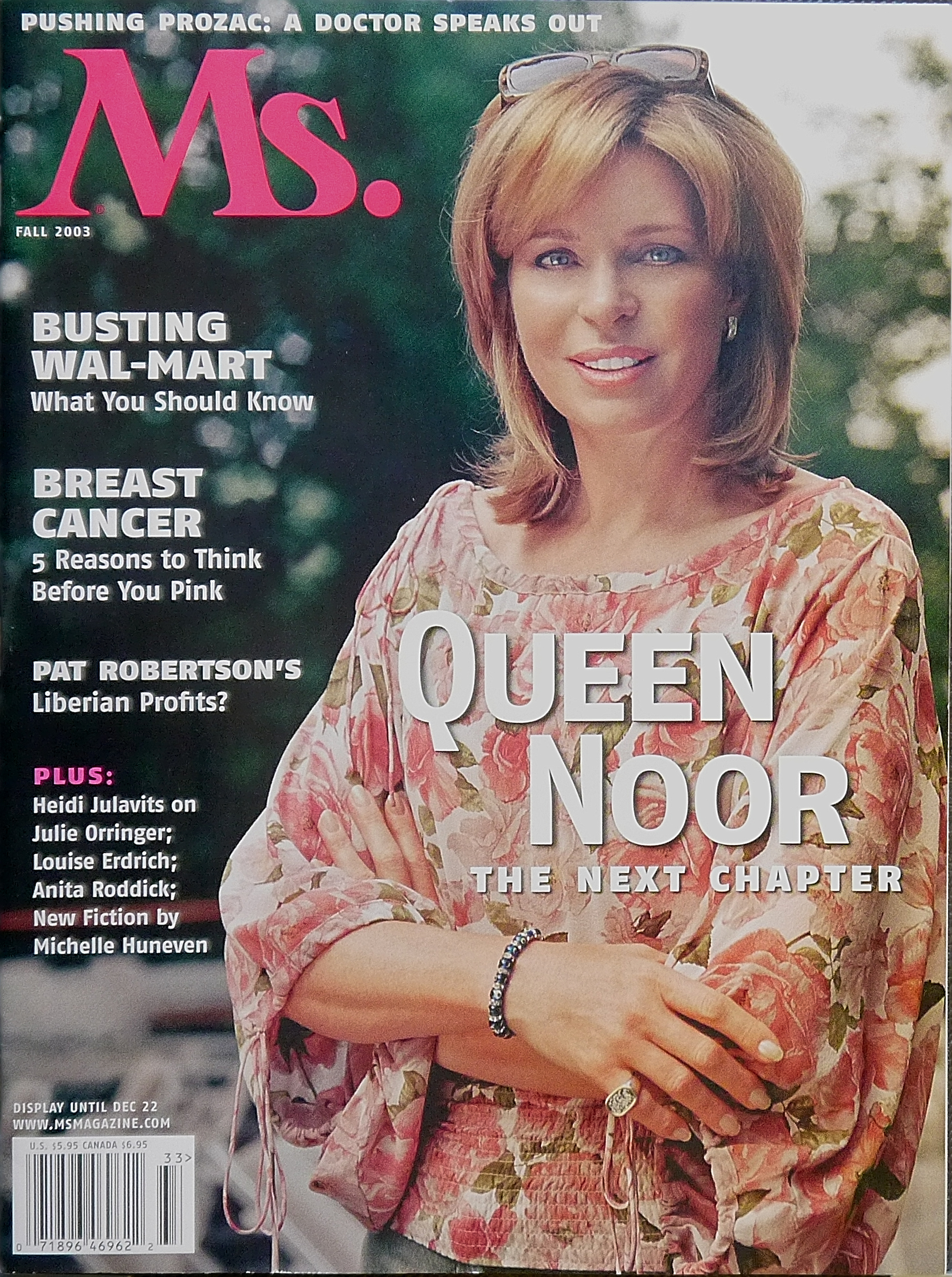 Ms. magazine, Fall 2003 featuring Queen Noor of Jordan